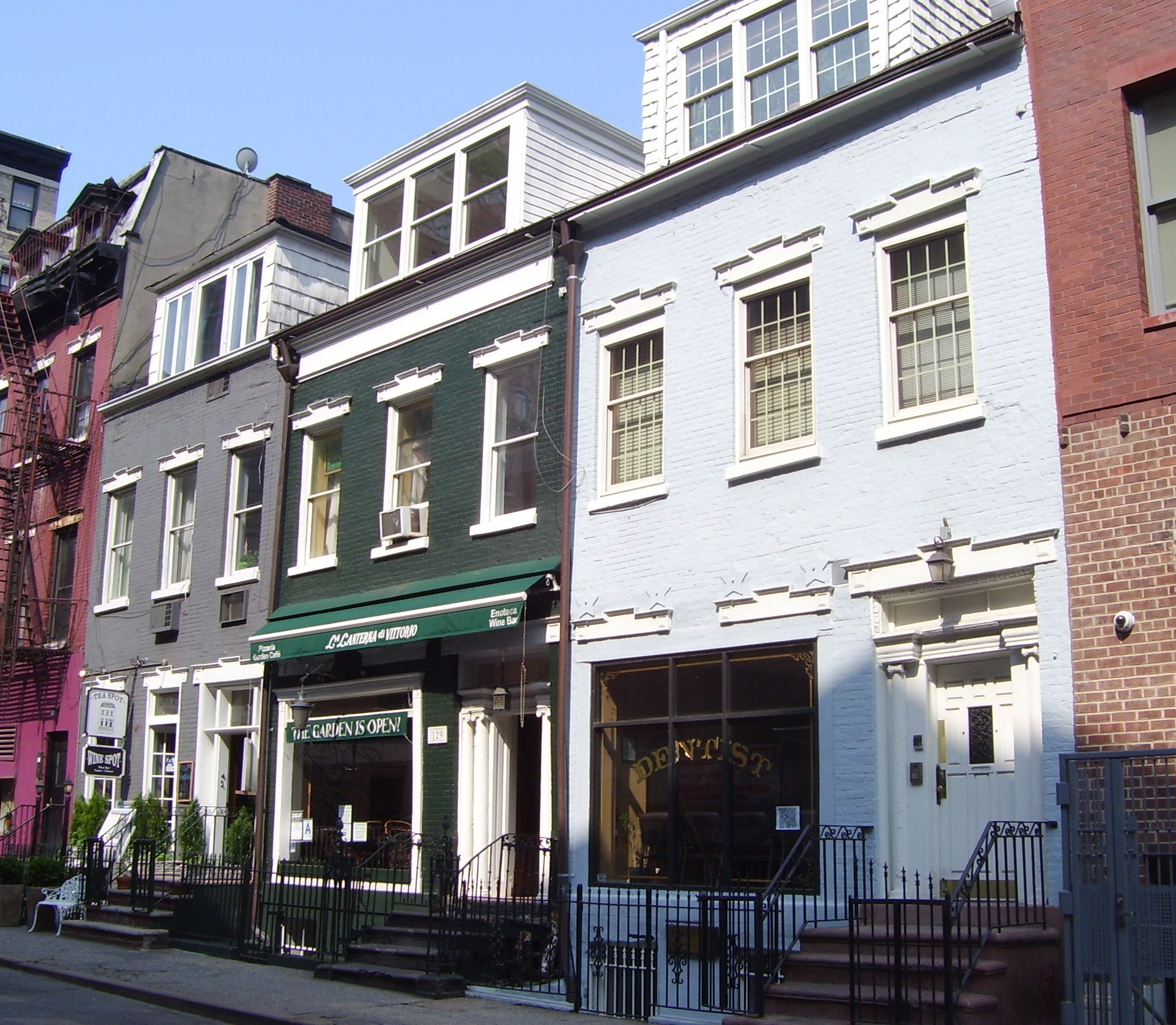 127 (left), 129 (center) and 131 (right) MacDougal Street between West 3rd and 4th Streets in the Greenwich Village neighborhood of Manhattan, New York City were built c.1828-29 as residences in the Federal style. All three had been converted to commercial use by the 1920s, and were designated NYC landmarks in 2004. (Source: Guide to NYC Landmarks (4th ed.))